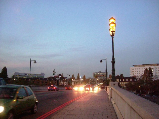 Dusk on Kew Bridge - A205 (T) South Circular Road Dusk on Kew Bridge, a major London river crossing part of the South Circular Road.